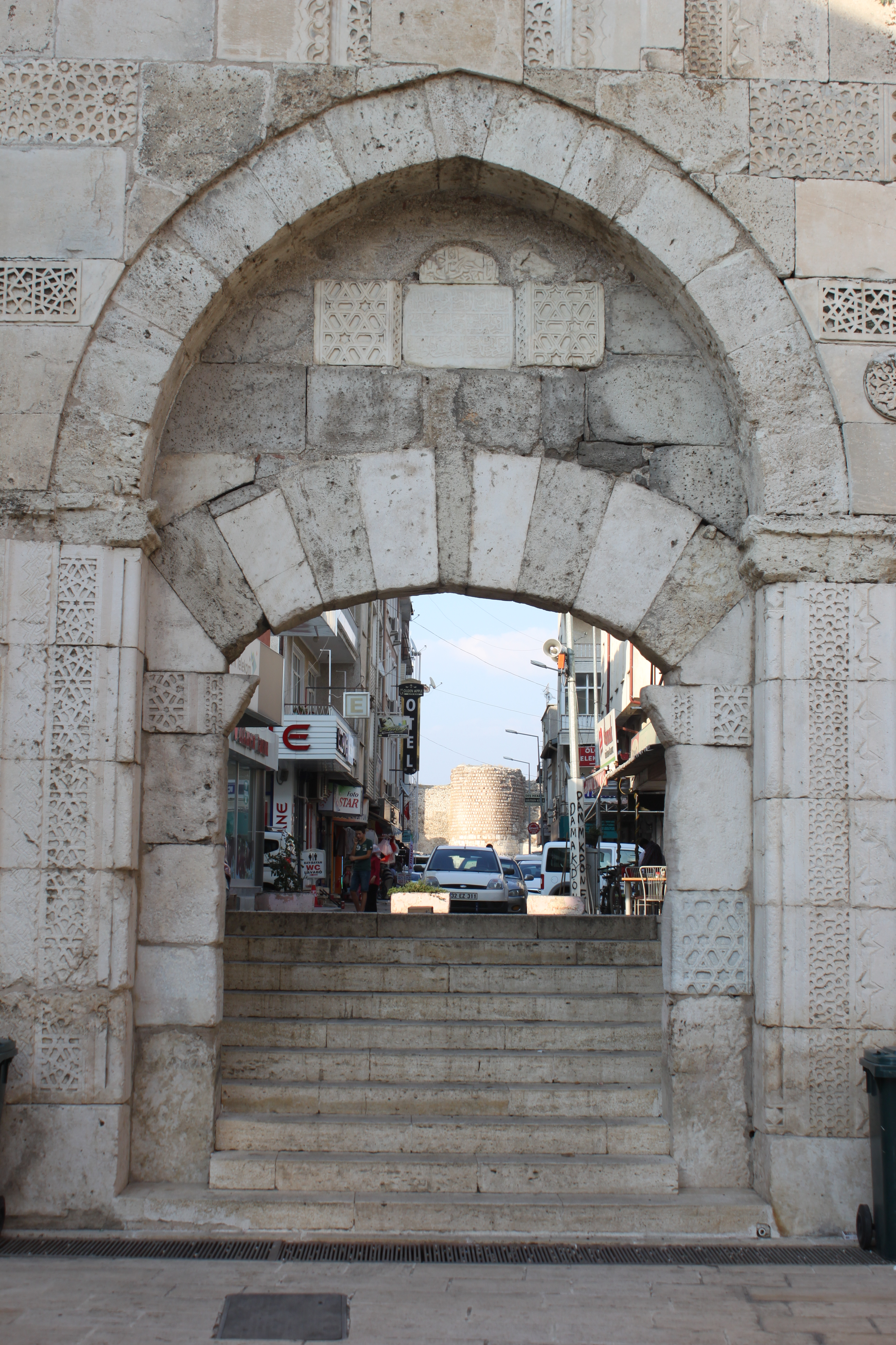 Eğirdir, city gate built with stones from Eğirdir-Han